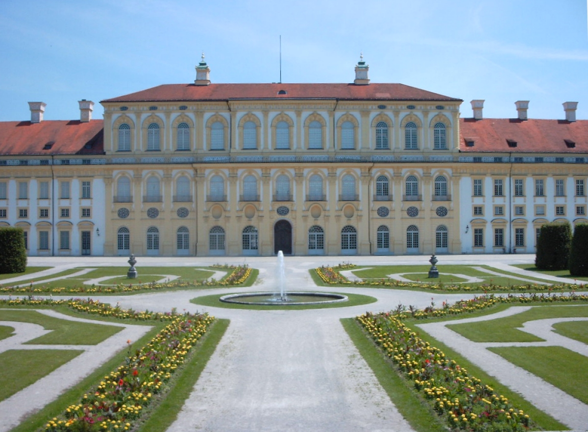 Schleissheim New Castle, in Bavaria